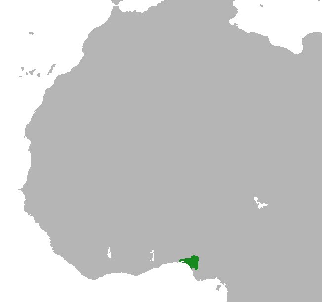 A locator map of the Benin Empire as it was in 1625.